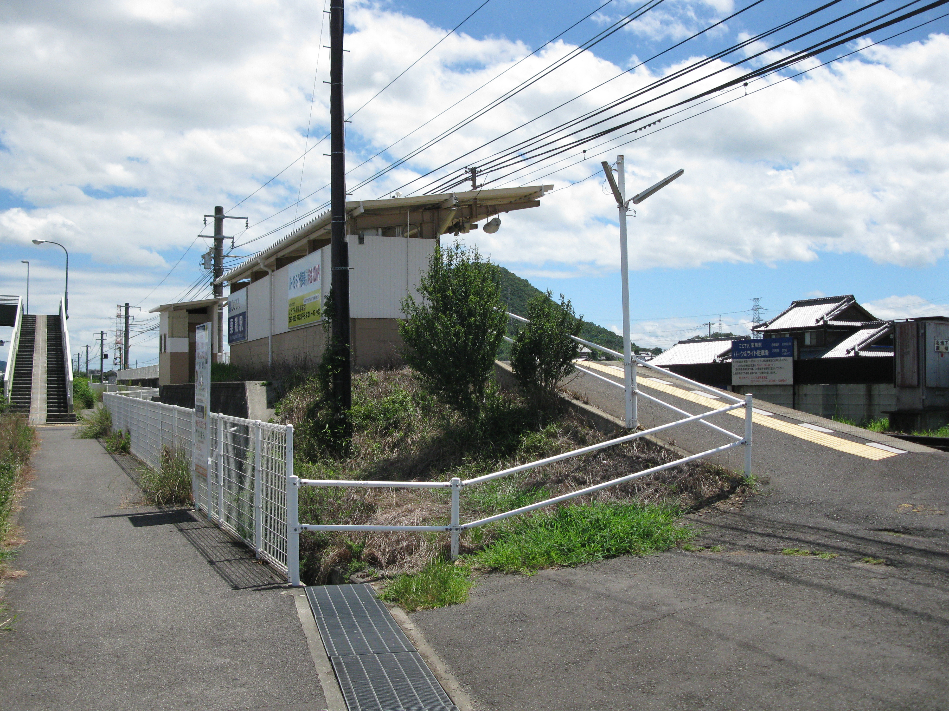 Kurikuma Station entrance (Takamatsu-Kotohira Electric Railroad(Kotoden) Kotohira Line)